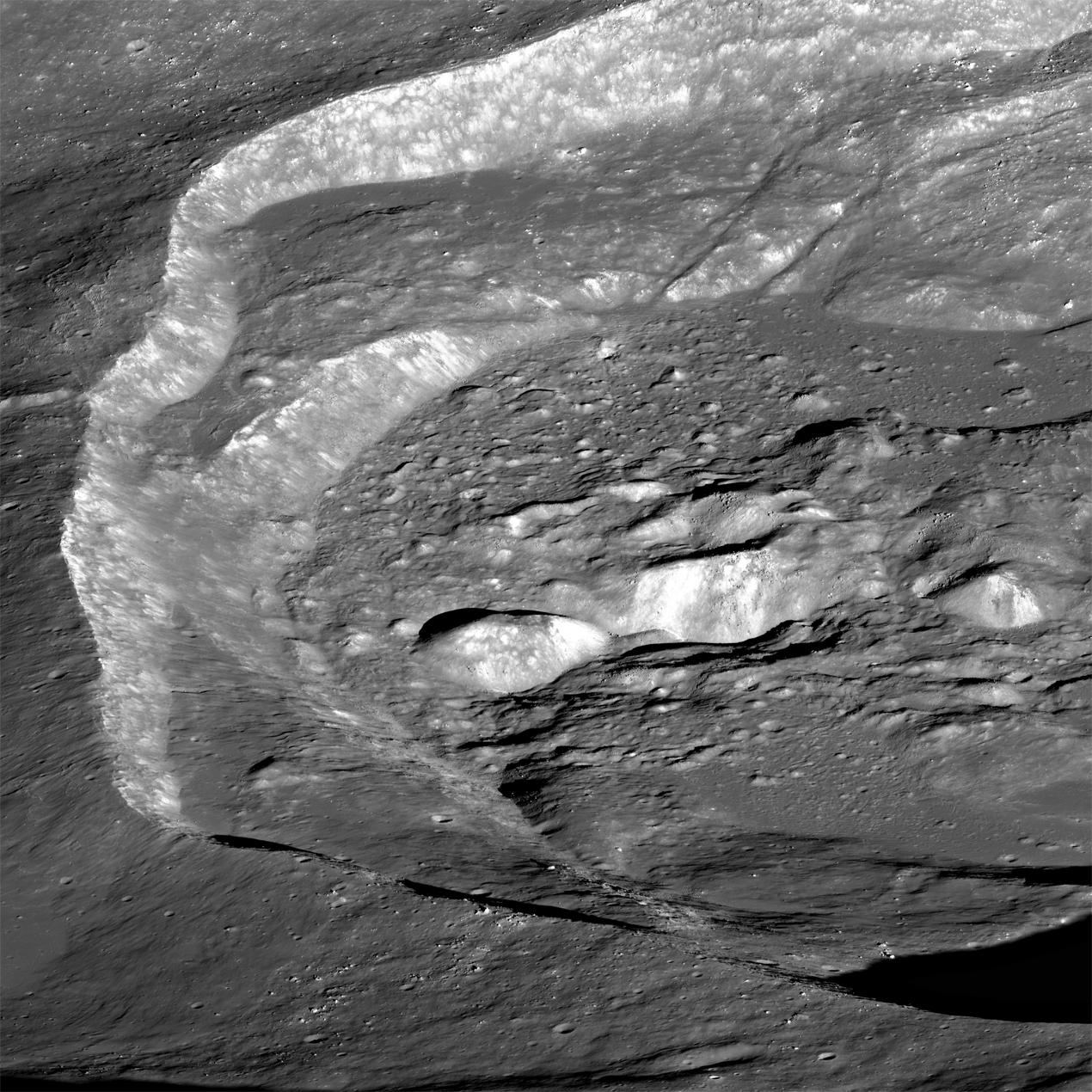 Oblique view of the chaotic interior of the 30-km crater Wiener F. NAC images M1113262343 L & R subsampled from their original resolution; scene width is approximately 13 km from left to right, centered at 41.1°N, 150.0°E [NASA/GSFC/Arizona State University].